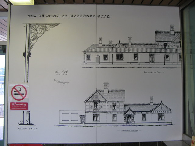 Architect's drawing for the second Hassocks station c.1880-1